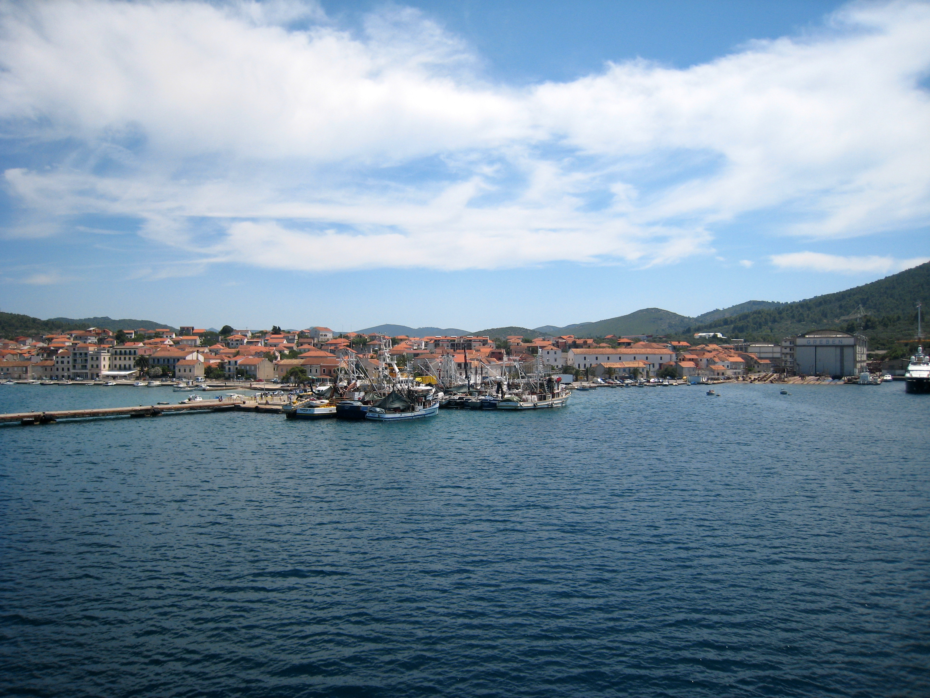 Vela Luka, Korčula Island, Croatia